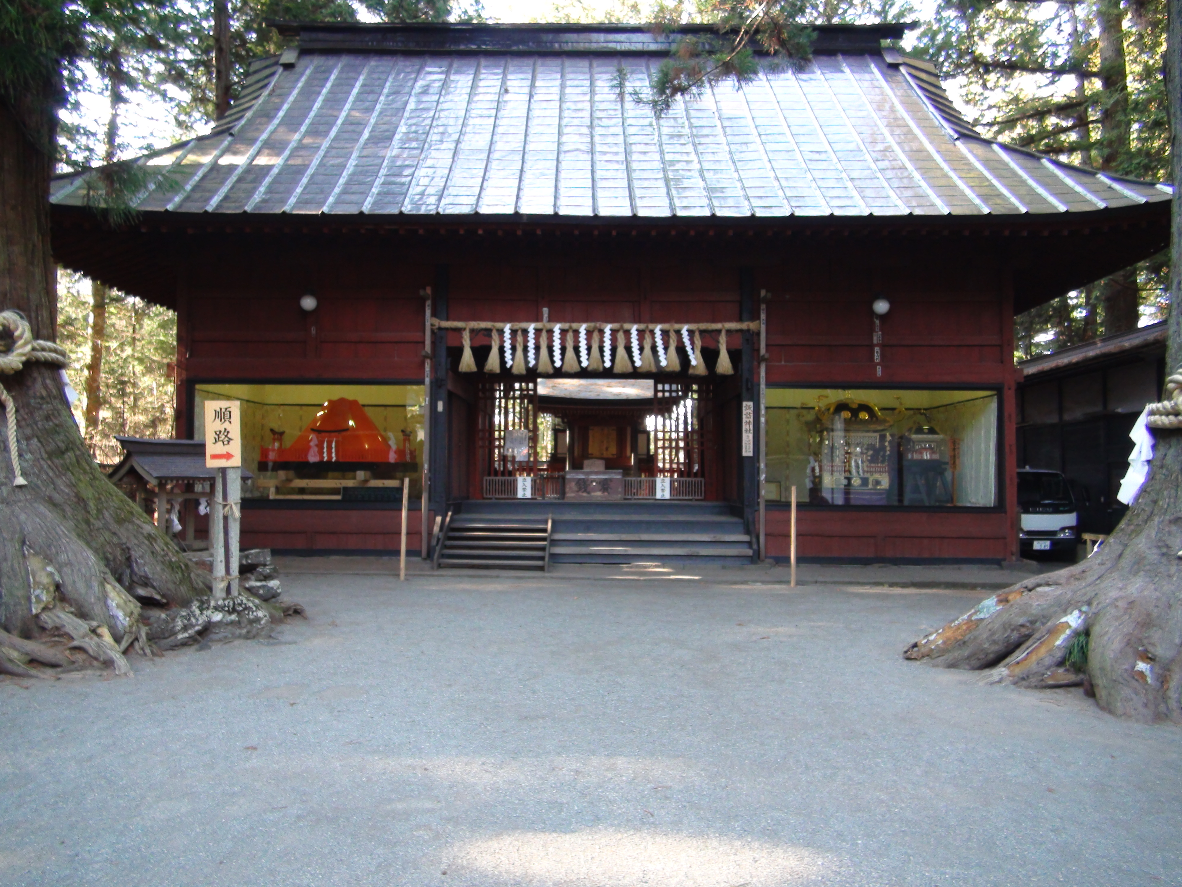 Suwa Shrine of auxiliary shrine Kitaguchi Hongu Fuji Sengen Shrine